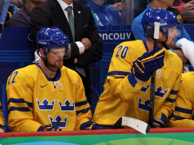 Swedish forwards Daniel and Henrik Swedin sitting on the bench ruding a game against Slovakia in the 2010 Winter Olympics.